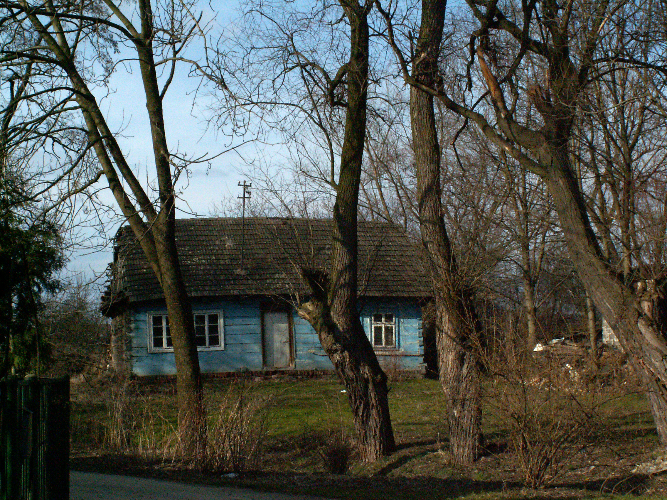 Kraków Lubocza old cottage